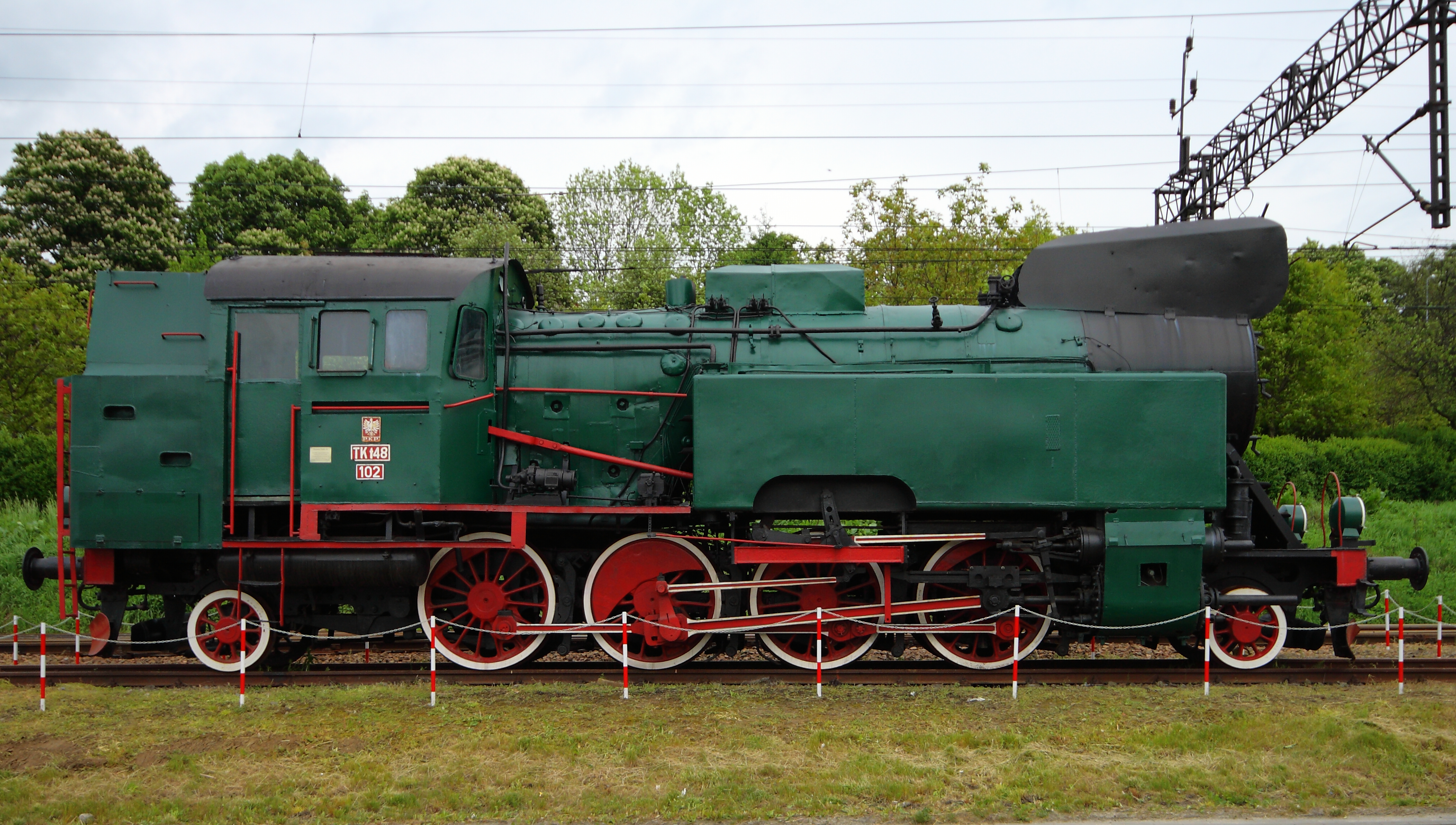 Monument of clas Tkt48, Serial Number 102, exposed on railroad station Jaslo, 2012